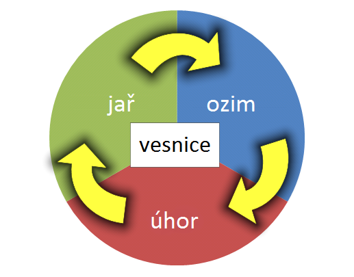 Illustration of the Three-field crop rotation. Created with ms excel and corel paint shop pro